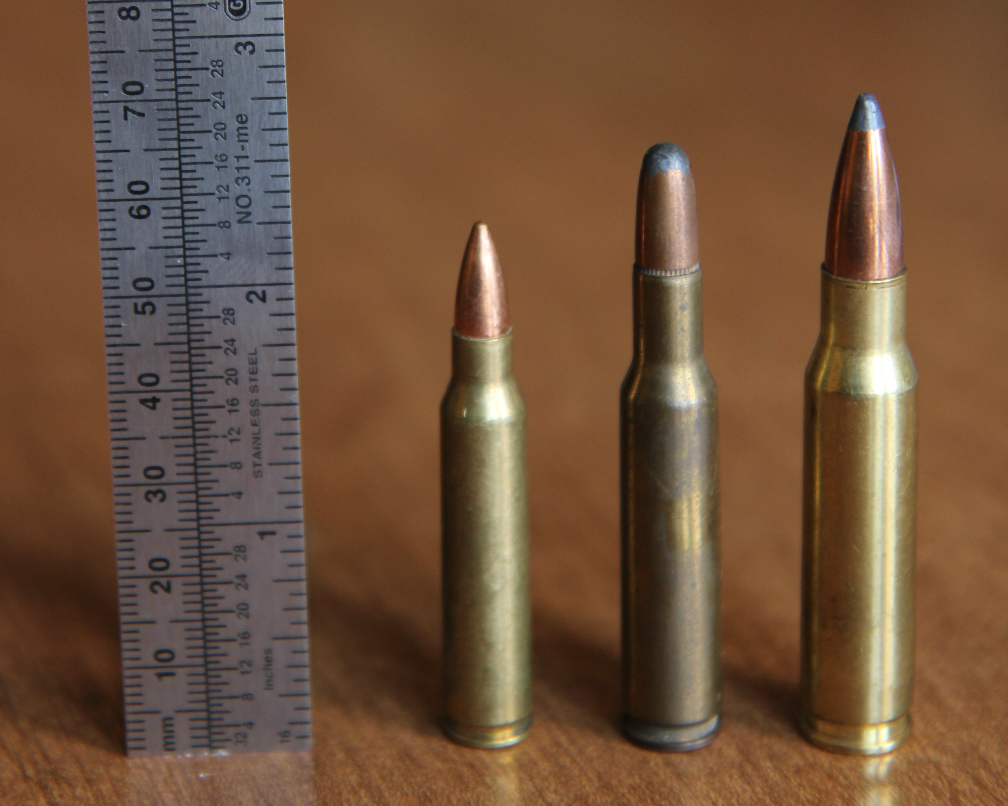 A .25 Remington cartridge next to a metric/imperial ruler with .223 Remington and .308 Winchester cartridges for comparison.